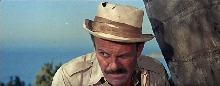 Terry-Thomas as Lt. Col. J. Algernon Hawthorne in It's a Mad, Mad, Mad, Mad World (1963) (Trailer screenshot)